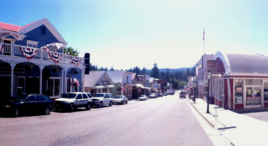 Downtown Nevada City Spring 2011